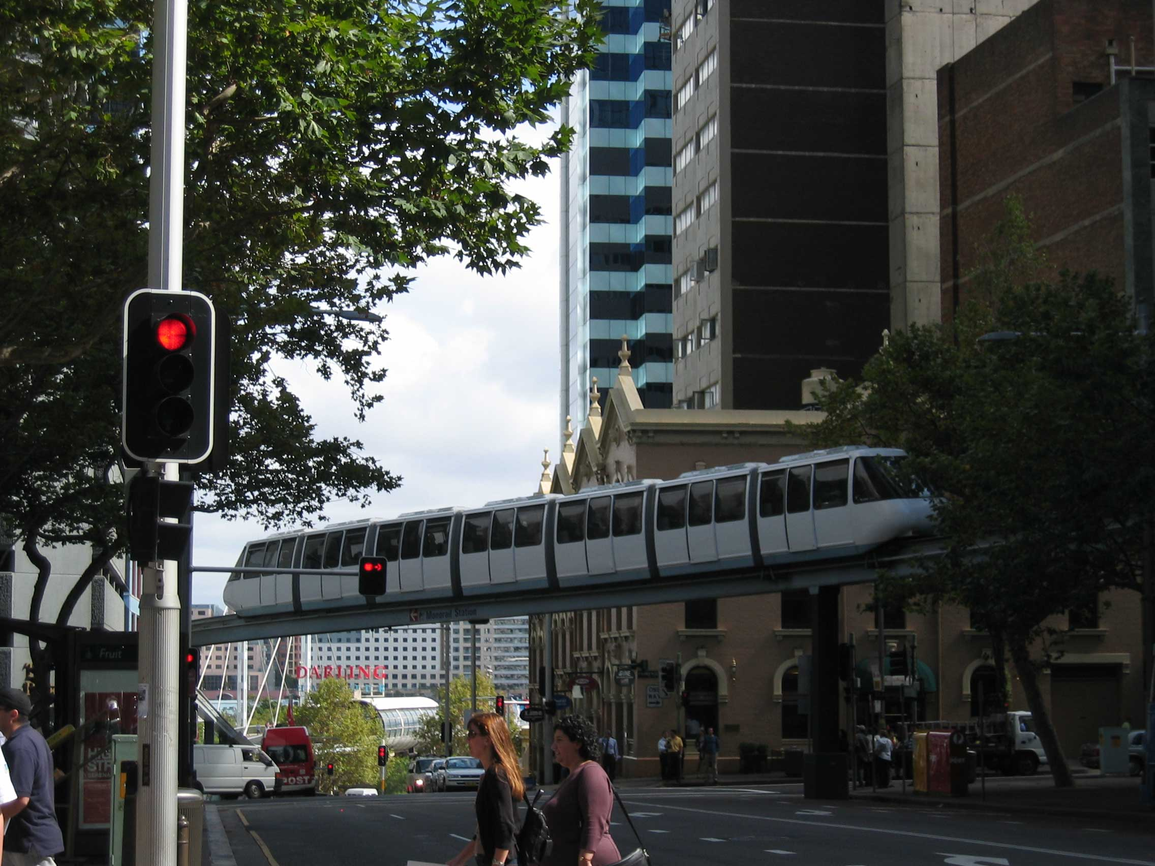 Monorail above Market Street, Sydney.